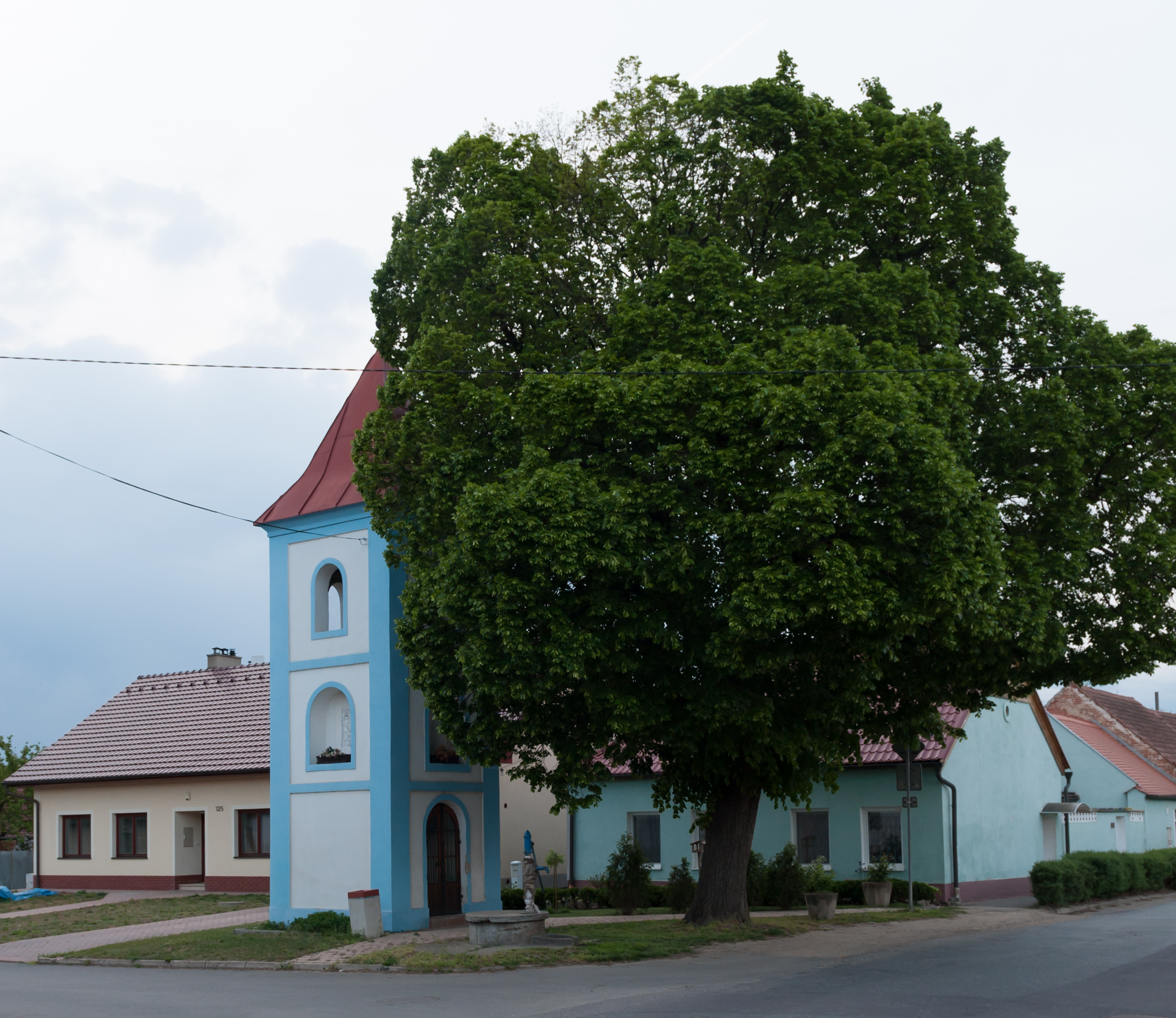 Wikitown Hustopeče: Božice